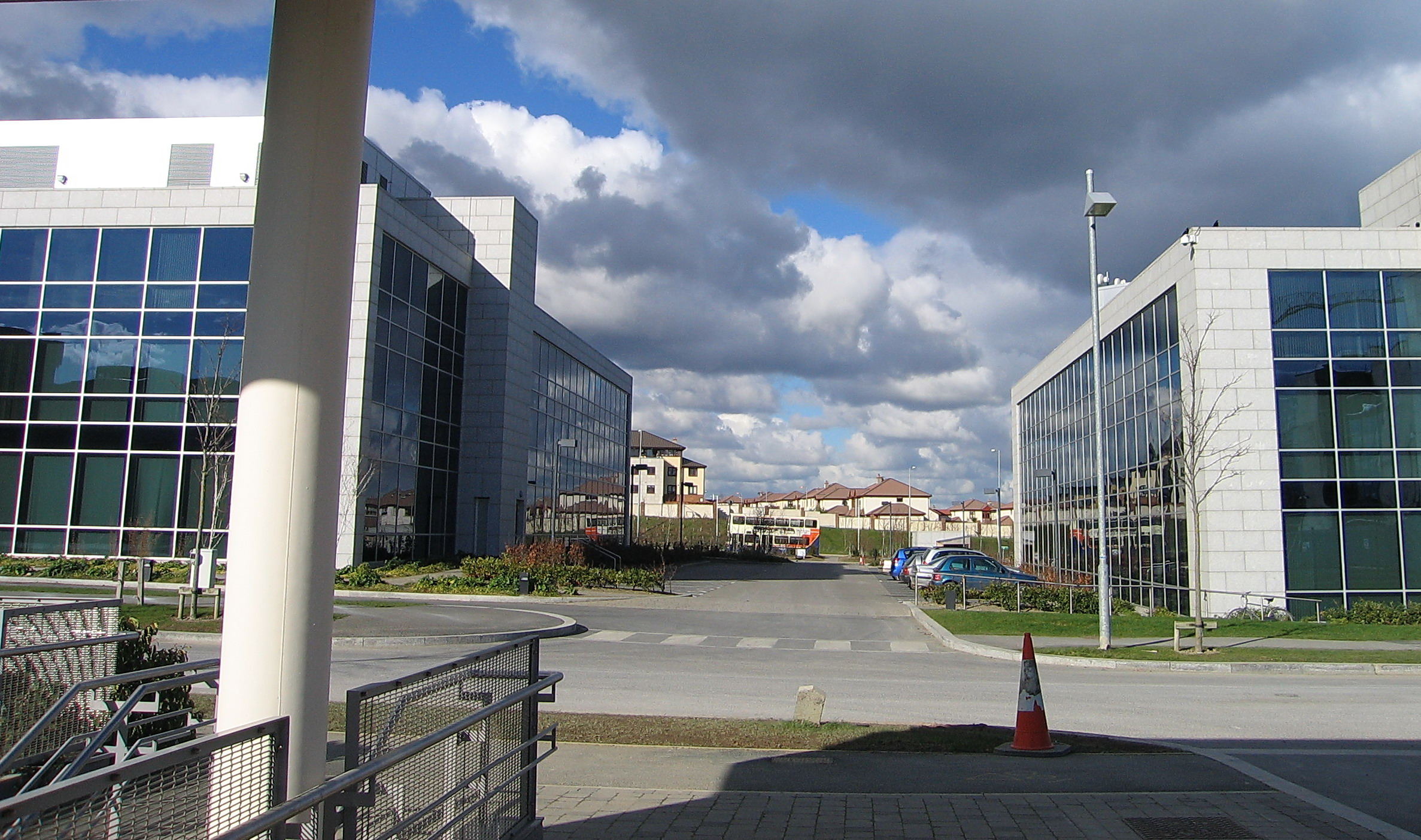 Cherrywood, Dublin